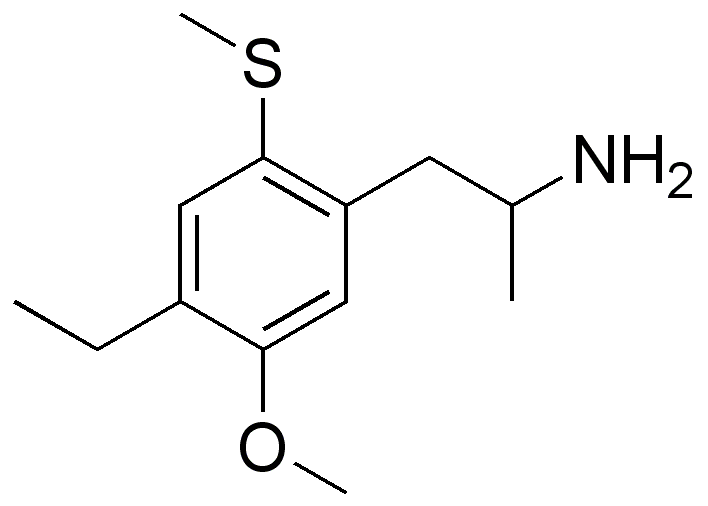 Chemical structure of 2-TOET, drawn in ChemDraw by User:Mark PEA.